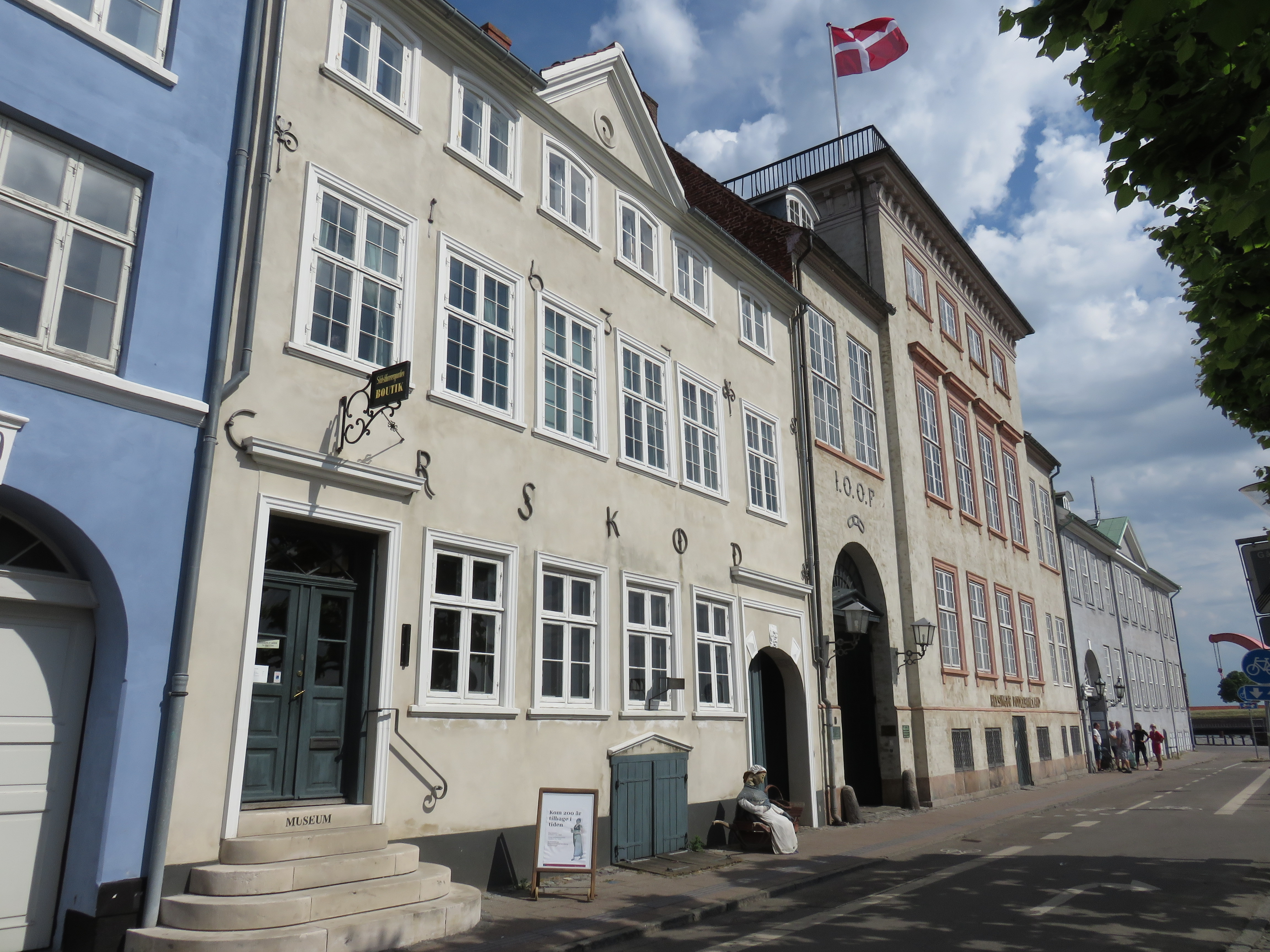 Skibsklarerergaarden (Shipping Agent's House) in Helsingør, Denmark in 2018